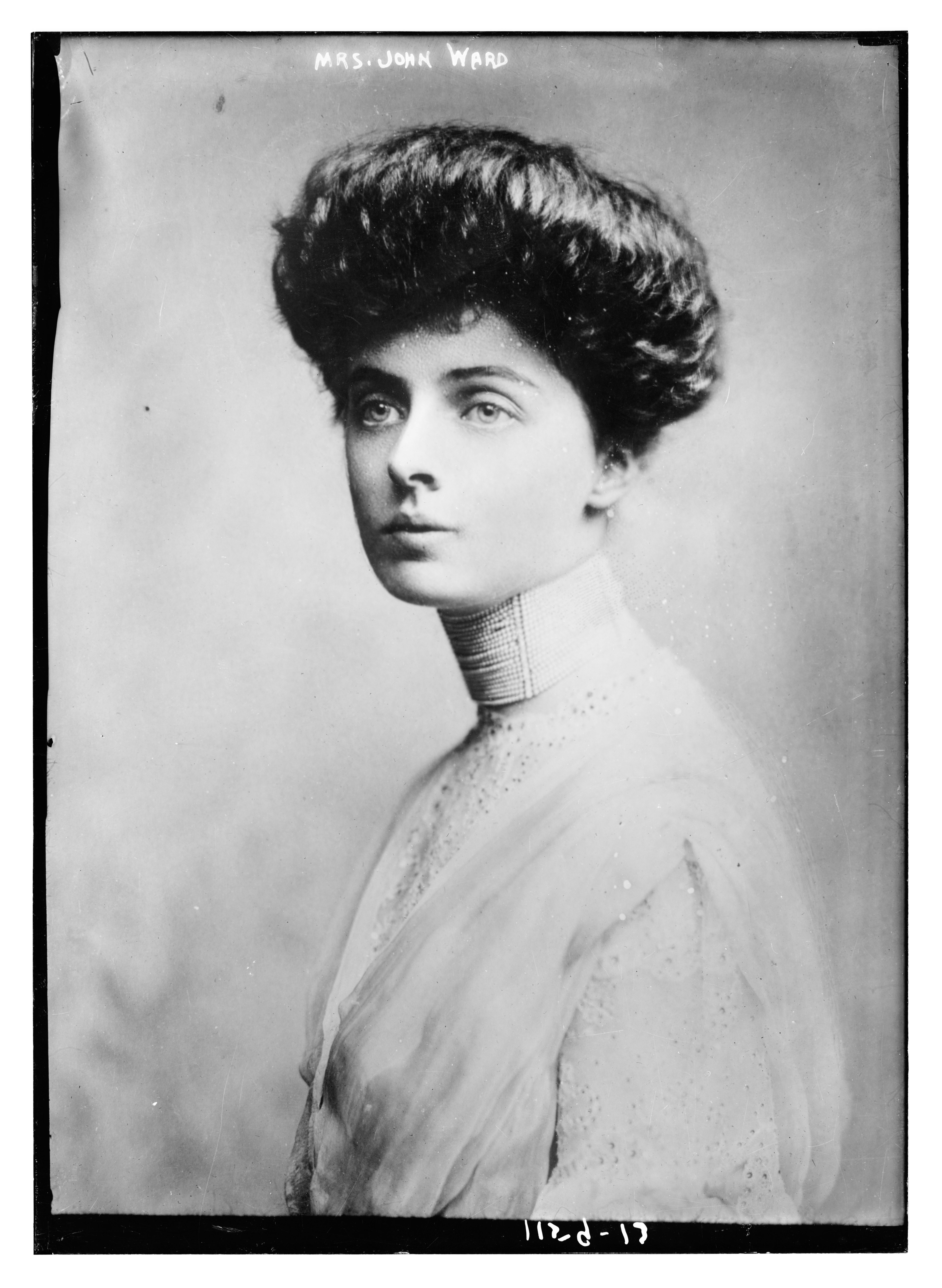 Title: Mrs. John Ward Abstract/medium: 1 negative : glass ; 5 x 7 in. or smaller.